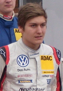 Formel Masters driver from 2012: Thomas Jäger